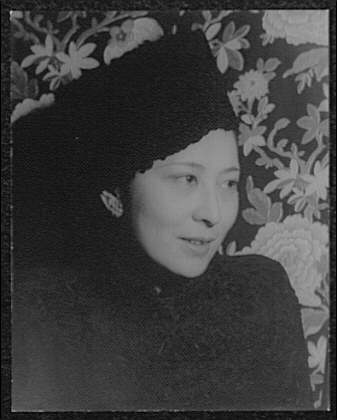 Title: Portrait of Hilda Yen Abstract/medium: 1 photographic print : gelatin silver.